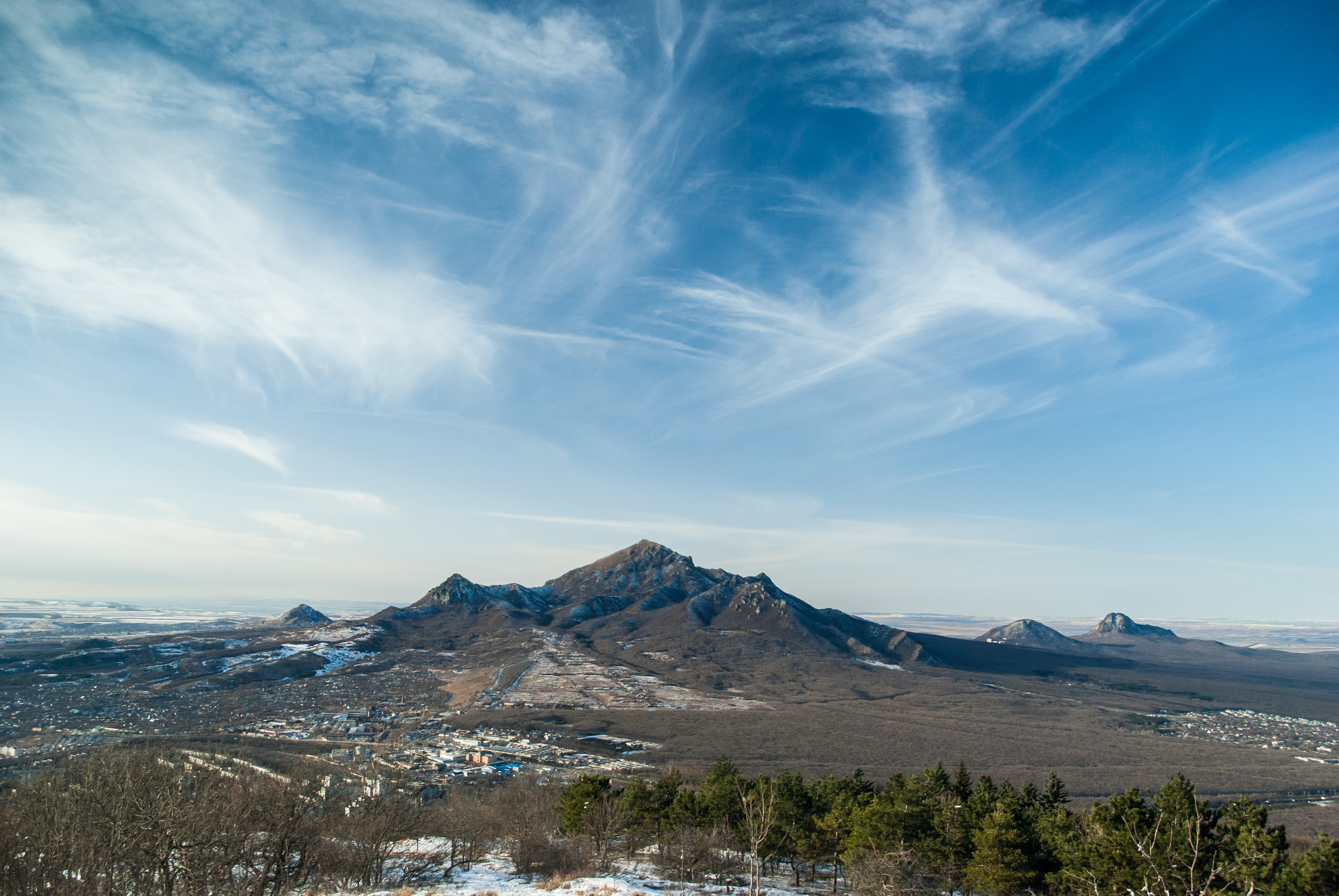 View of Beshtau mountain from Mashuk mountain. Pyatigorsk. Russian Federation.